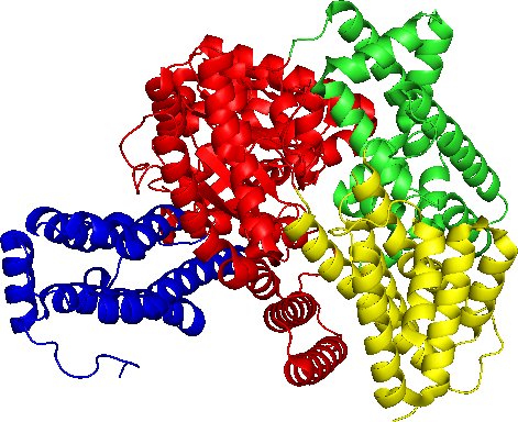 Figure 3: the Phosphoenolpyruvate (PEP) carboxylase single sub-unit structure (generated by PyMOL).